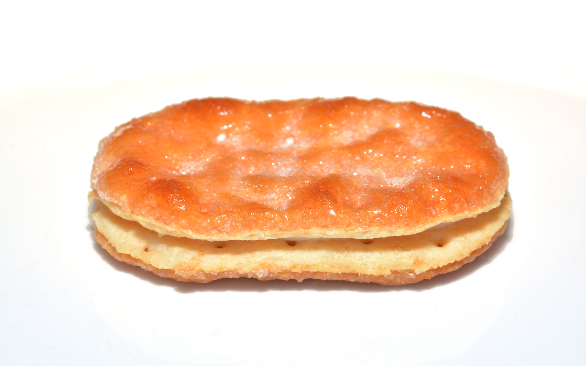 French waffle